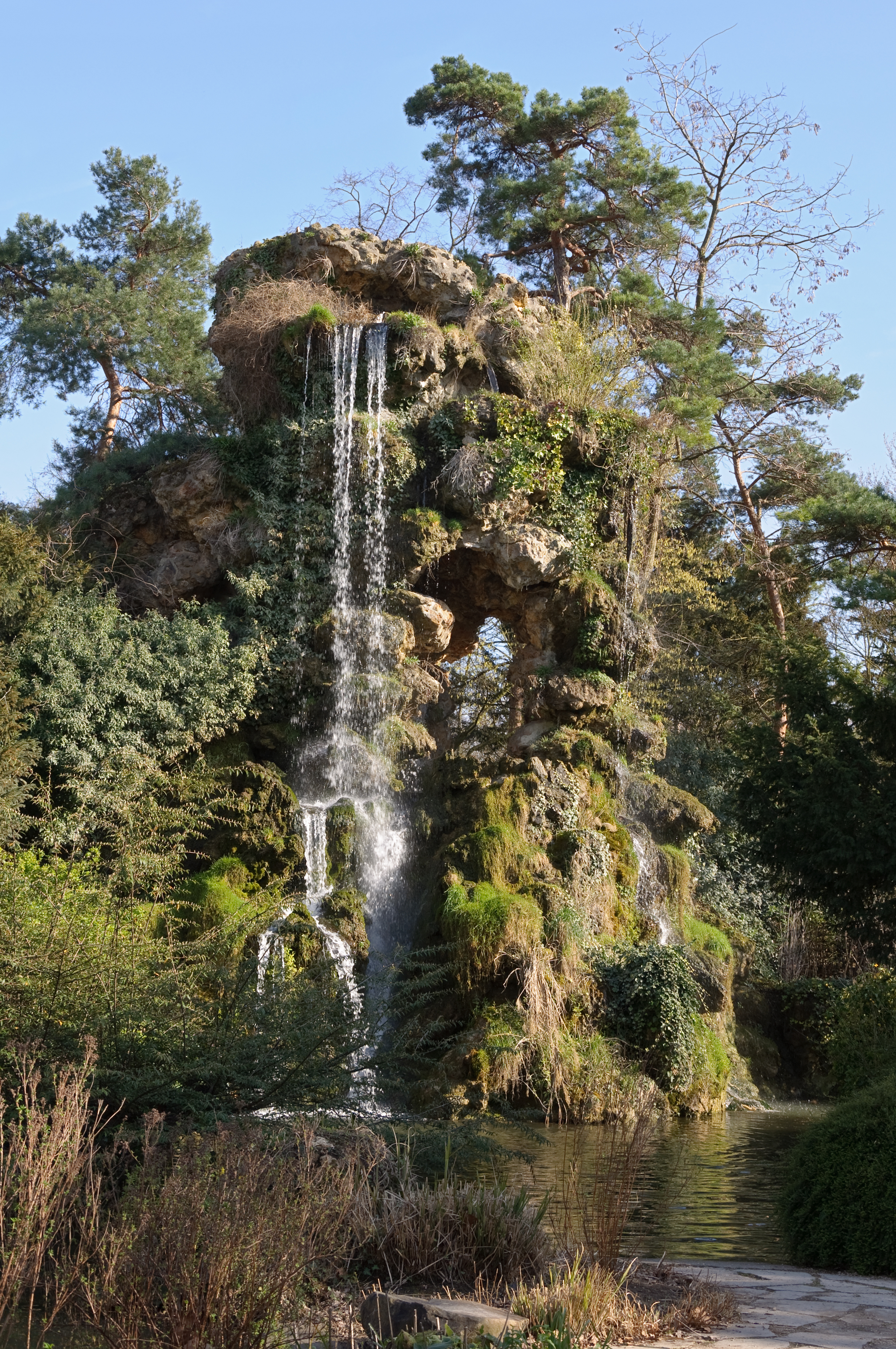 The artificial cascade in the park of Bagatelle, Paris, France.